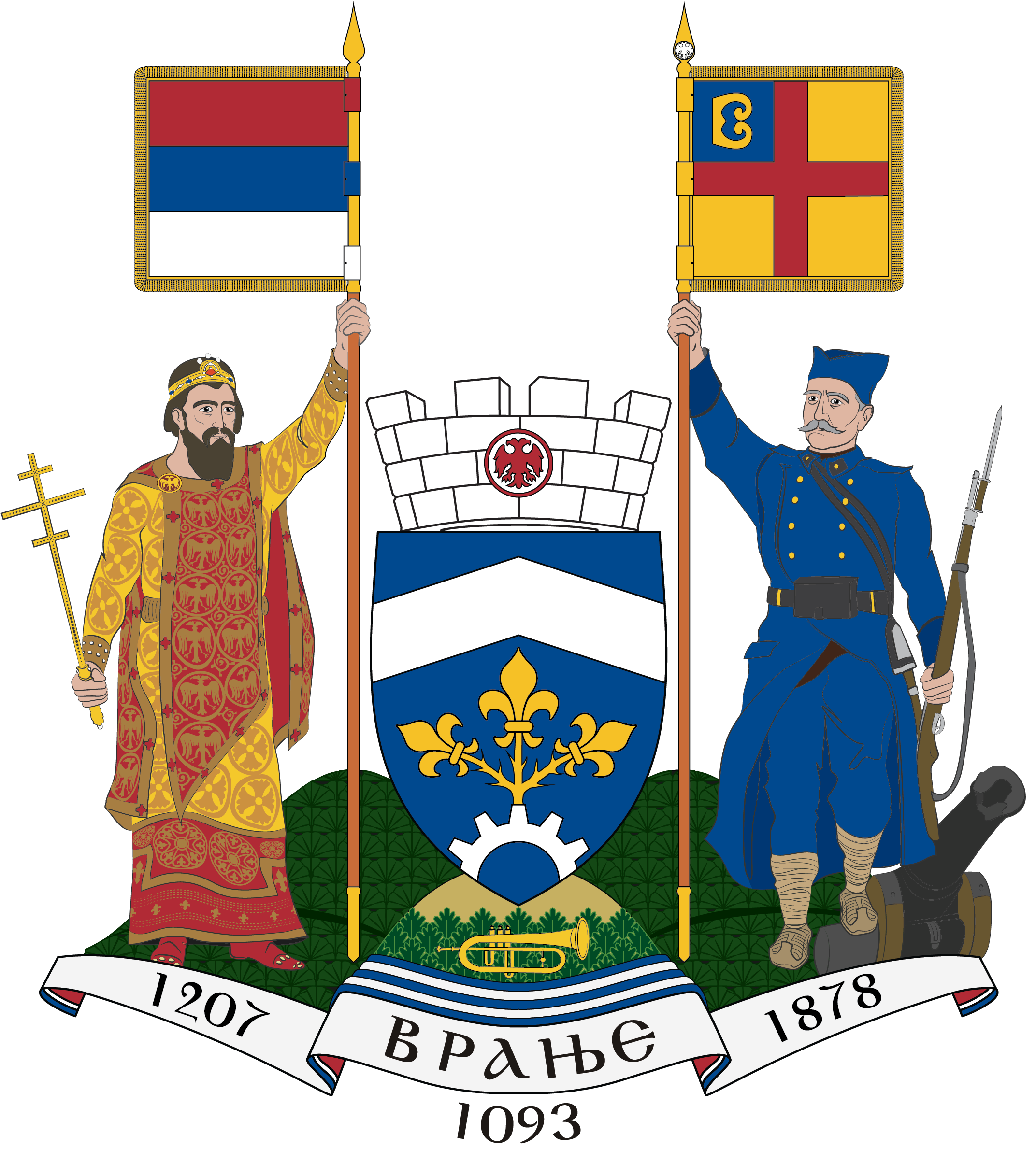 The coat of arms of Vranje adopted in 2013.